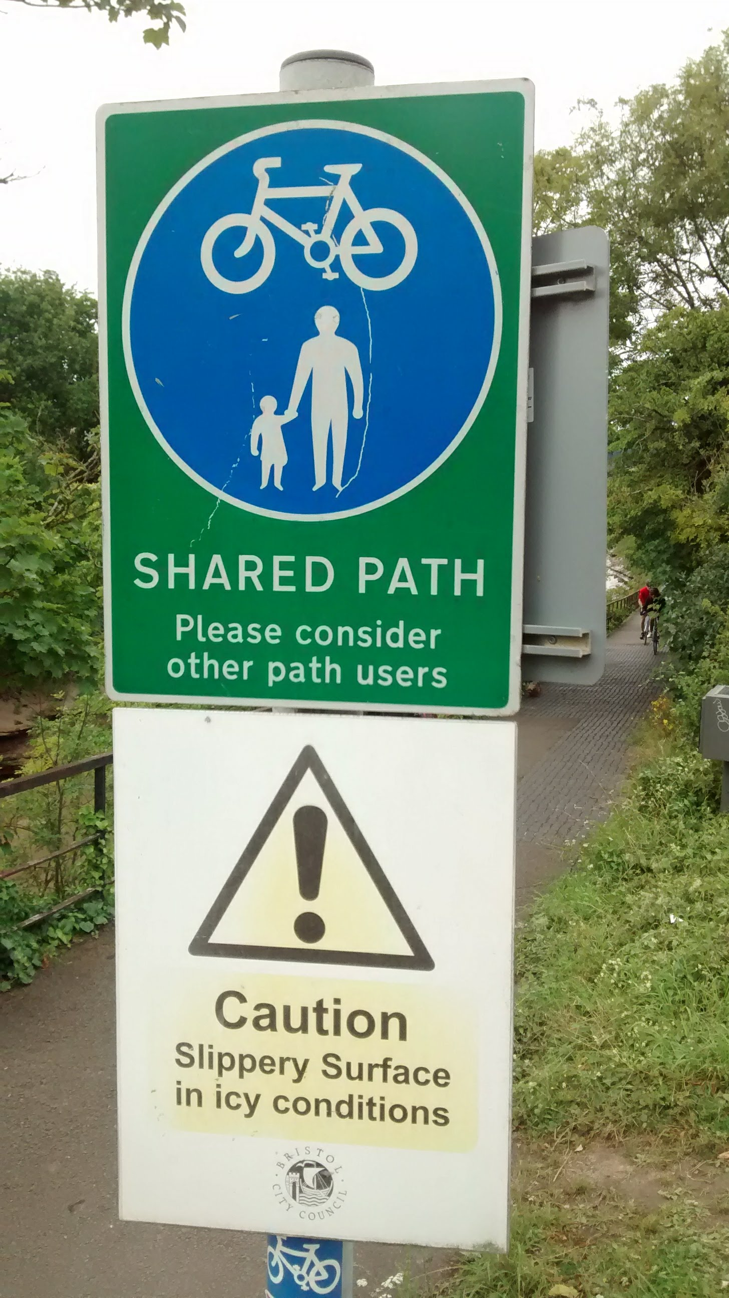 Street sign indicating a shared path